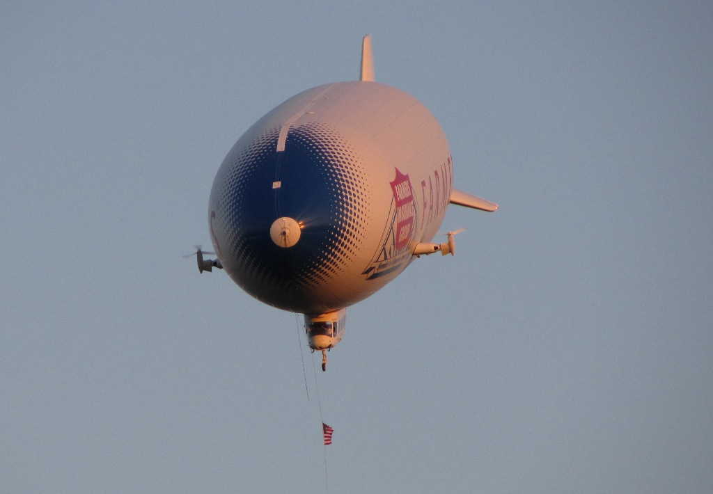 Farmers Insurance Zeppelin NT